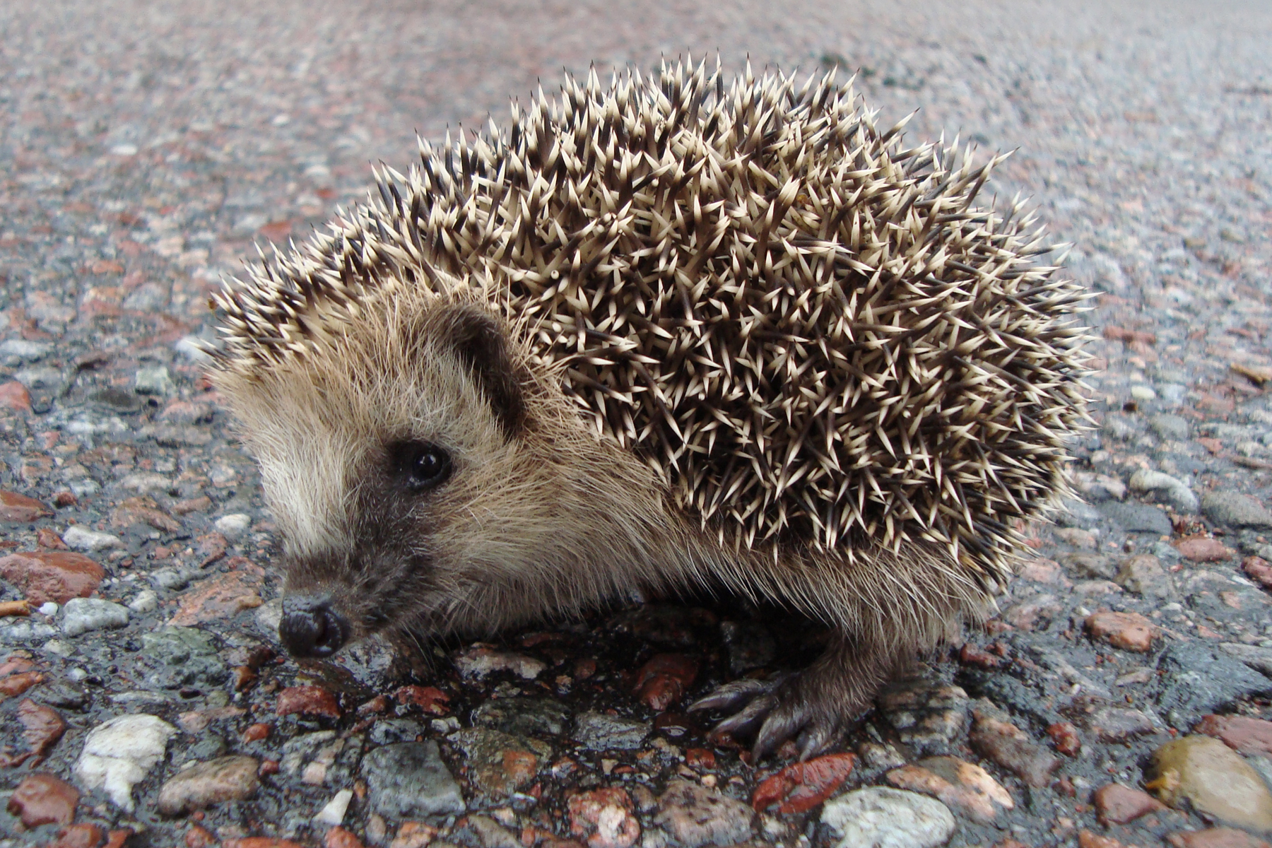 Juvenile European hedgehog (Erinaceus europaeus) on asphalt. Avesta, Sweden.